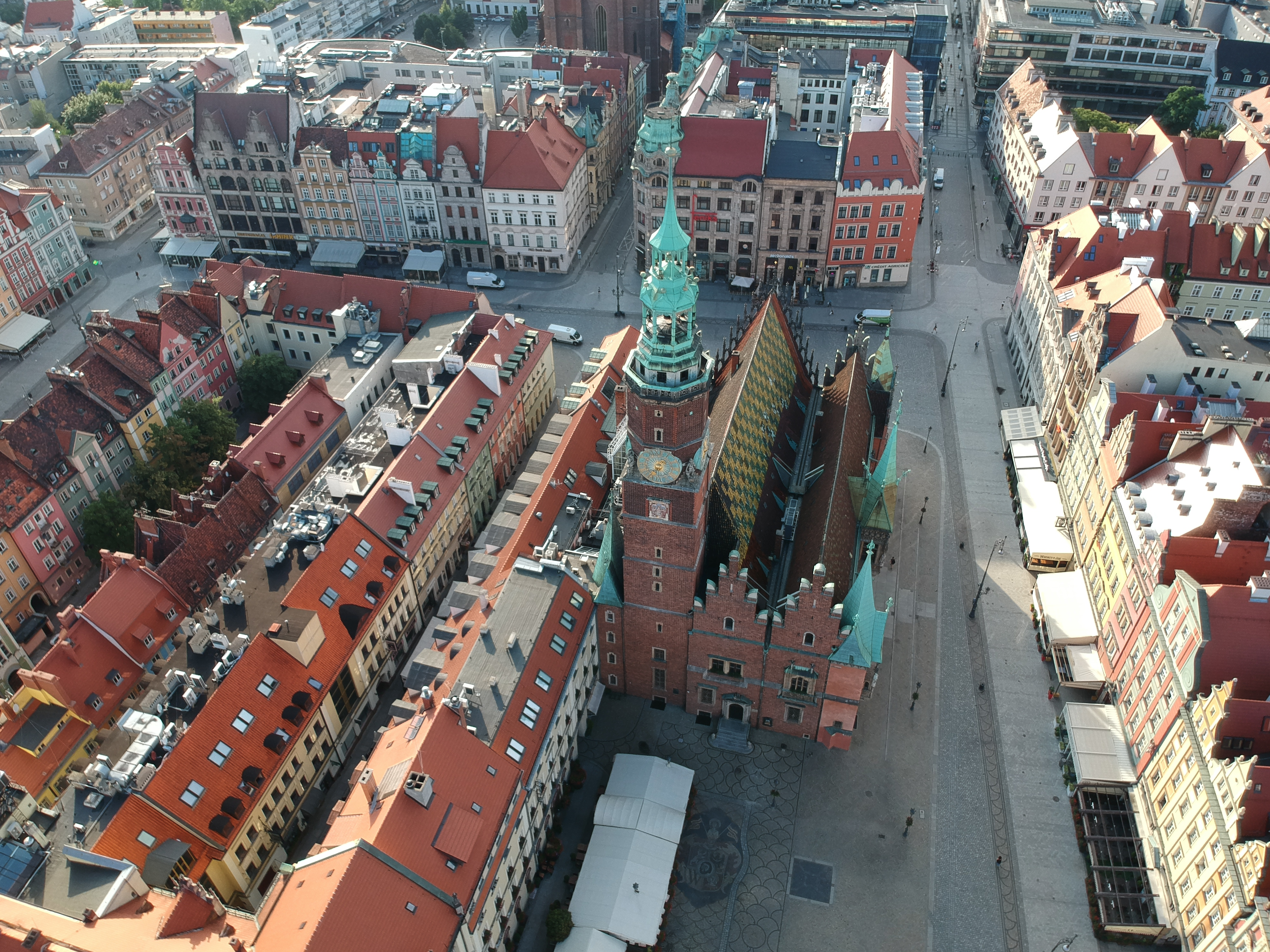 Wroclaw market square